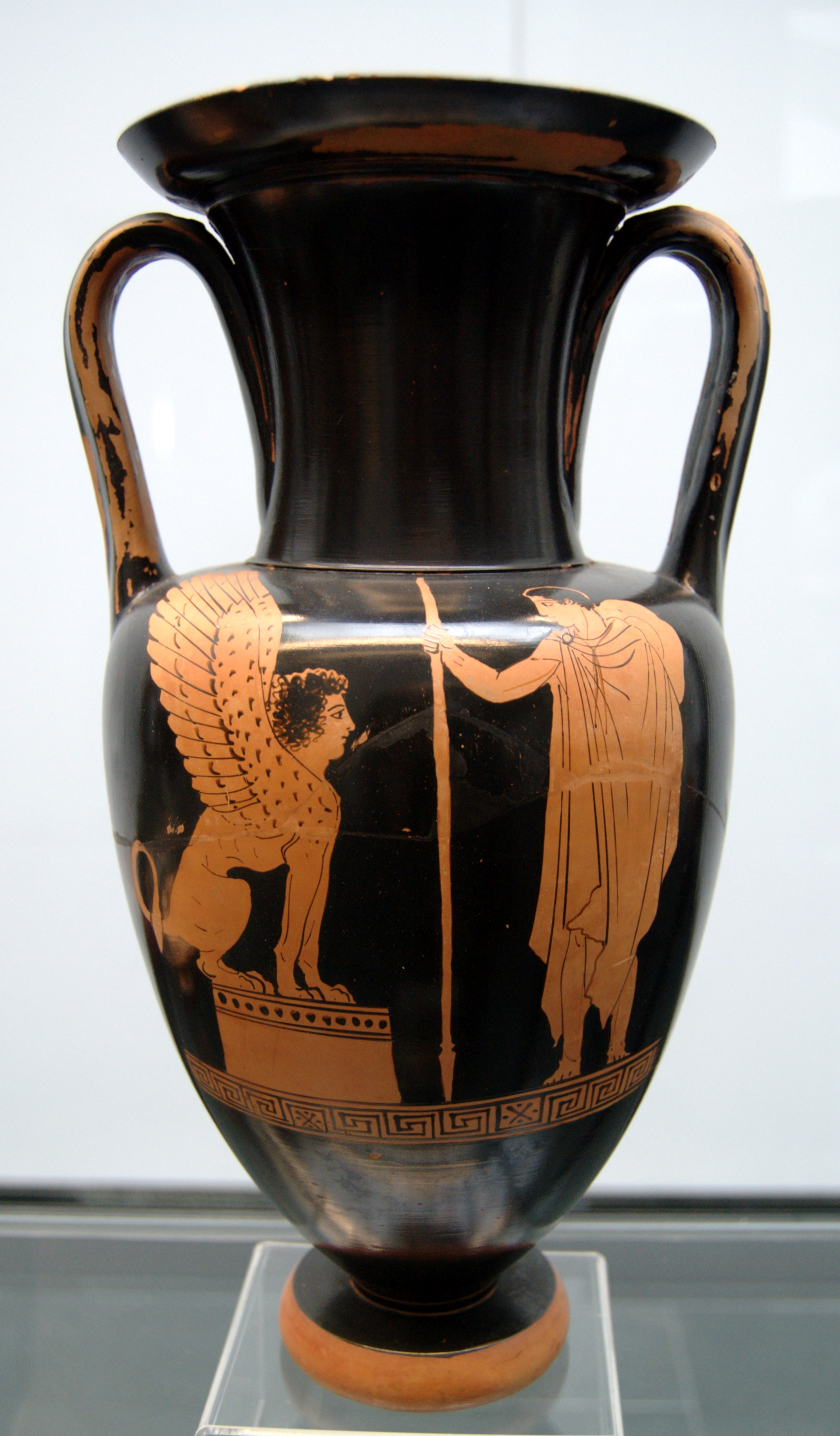 Oedipus and the Sphinx. Attic red-figure amphora, 440–430 BC. From Nola.